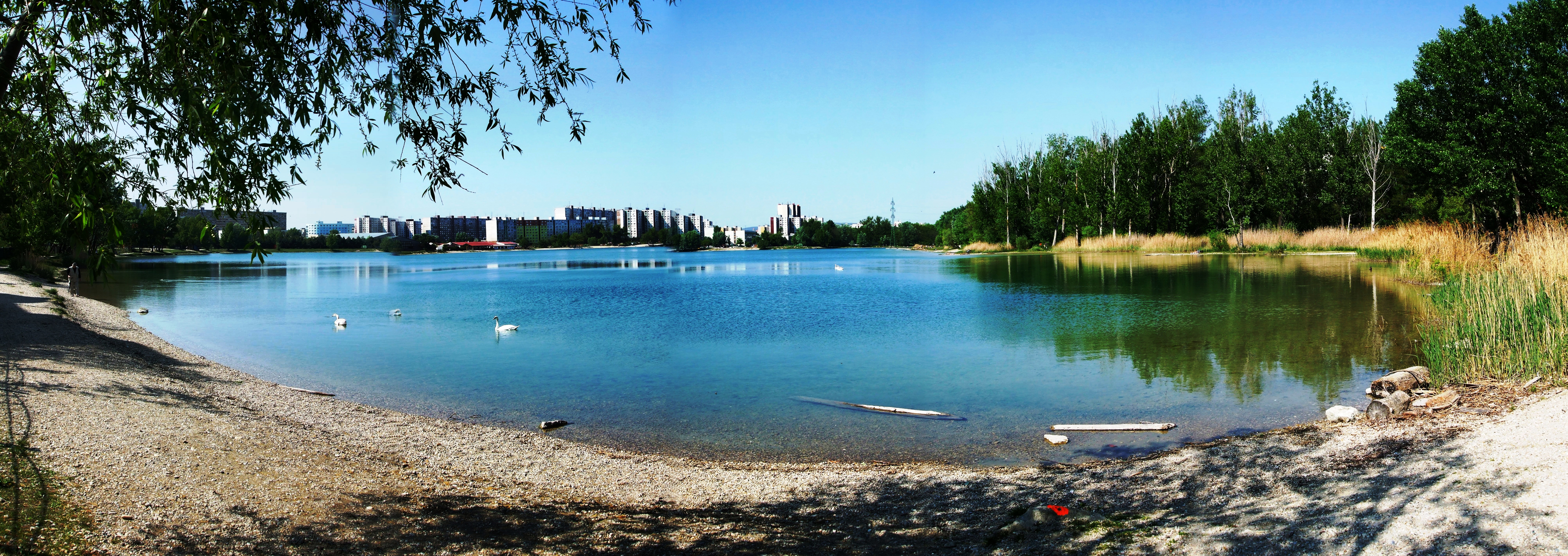 Veľký Draždiak Lake in Petržalka, Bratislava, Slovakia